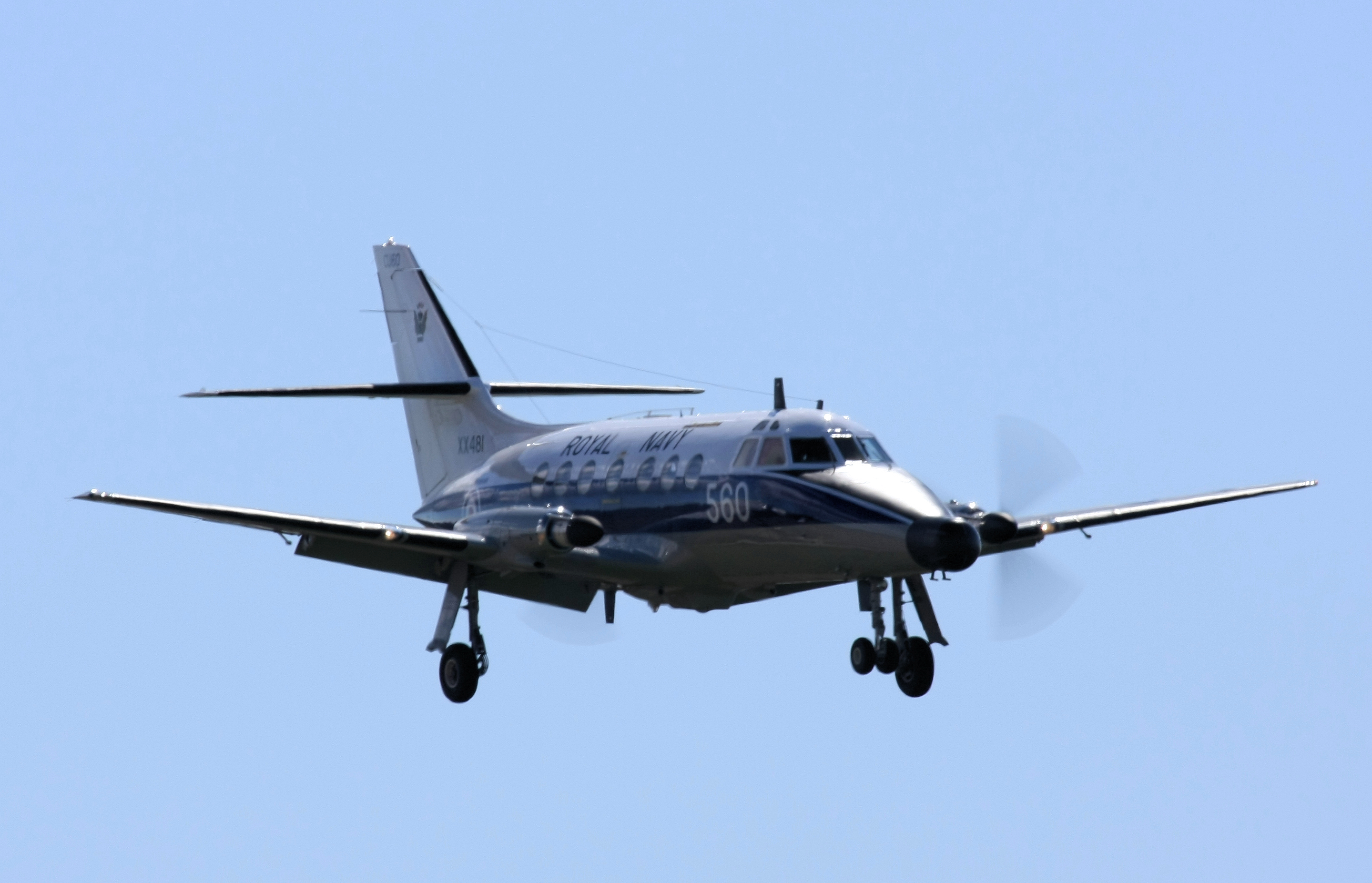 Jetstream T2 observer/navigator training aircraft XX481/560-CU of 750 NAS on short final to Runway 30 at RNAS Culdrose